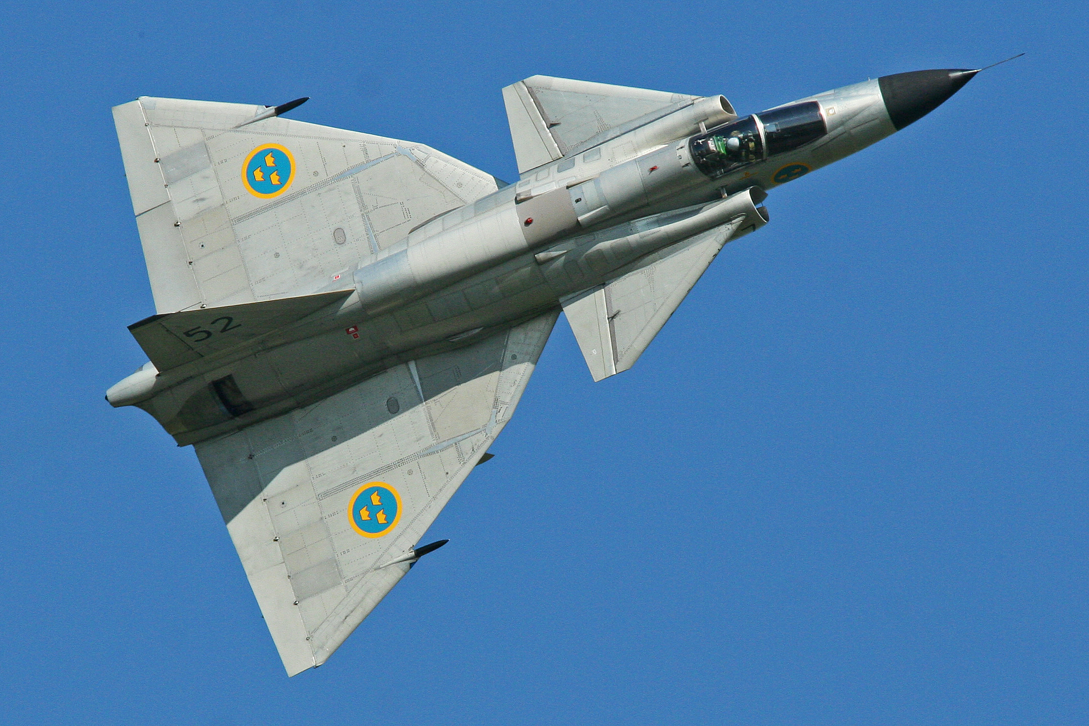 A nice topside view of the Viggen during its display at Waddington. The types unusual planform is well demonstrated here. She first flew after restoration in 2012, and has been active in Europe ever since, operated by the Swedish Air Force Heritage Flight. c/n 37-098. 2013 Waddington Airshow. 6-7-2013